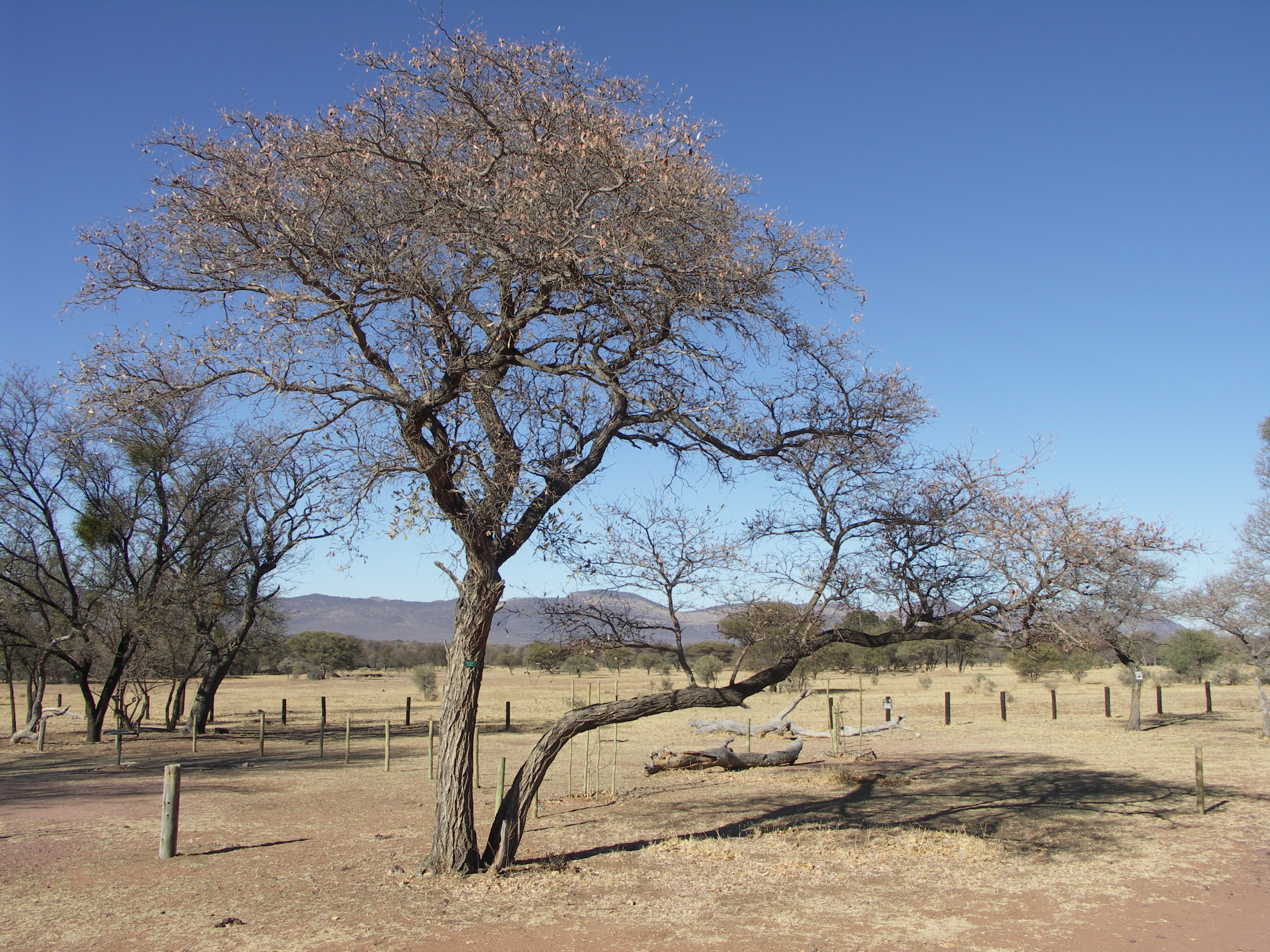 Vaalboom (Terminalia sericea) in the Marakele National Park, South Africa